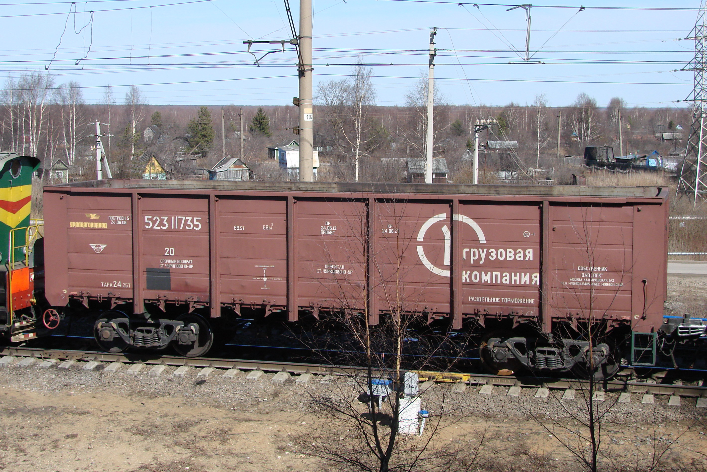 Russian Railways, Gondola (rail) by «Uralvagonzavod»